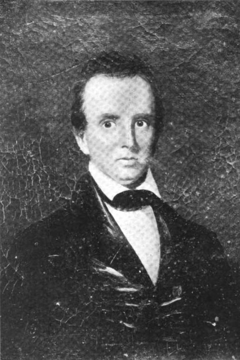 Judge Alexander Wolcott Stow was the first Chief Justice of the Wisconsin Supreme Court